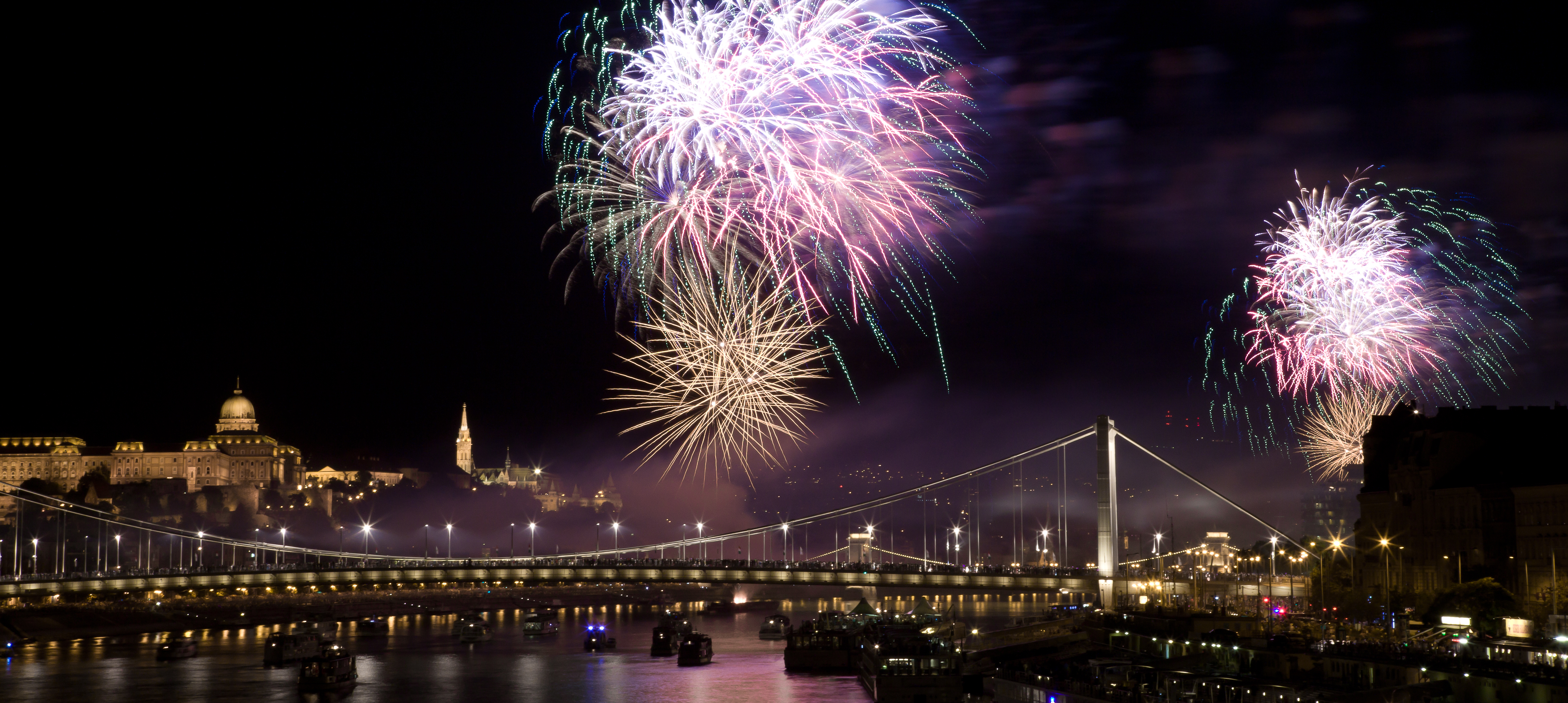 20th August is St. Stephen’s Day in Hungary and it is a public holiday. The Hungarian people celebrate the foundation of the Hungarian state more than 1000 years ago. Which took place over the Danube river in hungary.